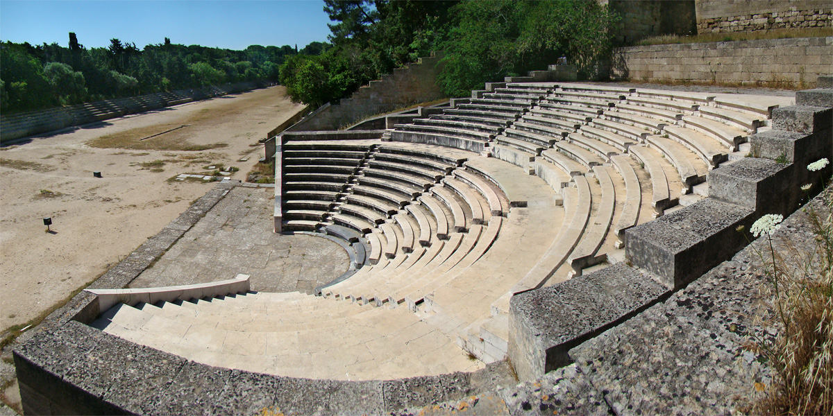 Acropolis, Rhodes, Greece. The theater.